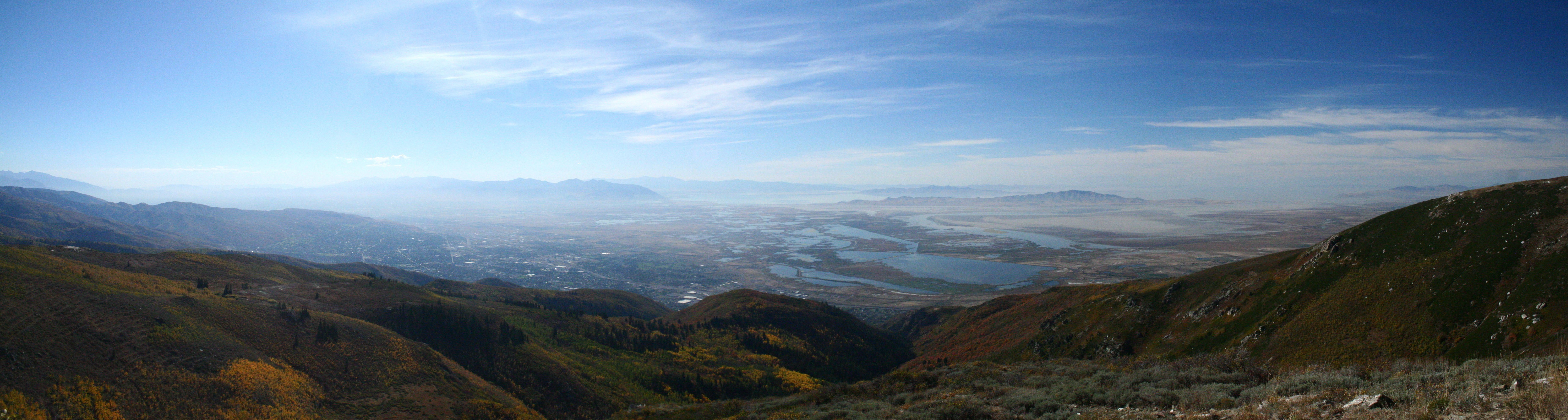 Panoramic view Great Salt Lake from Francis Peak.